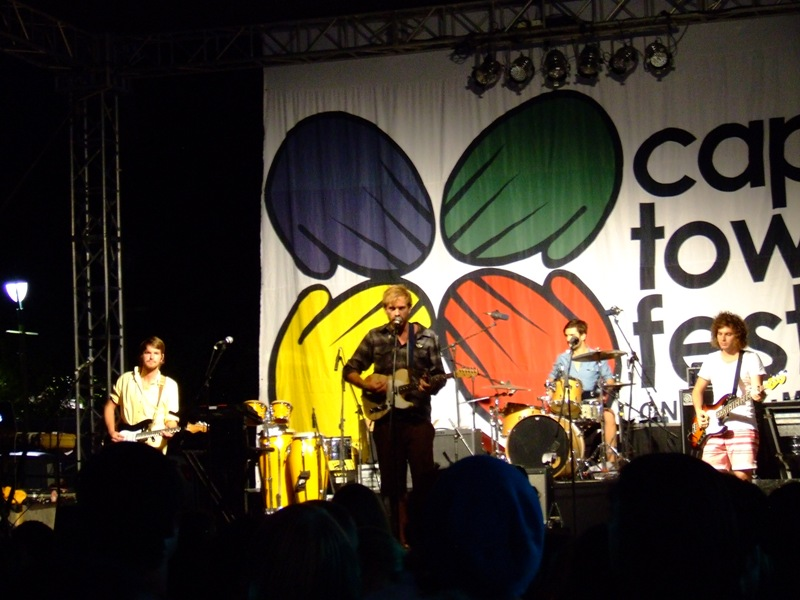 Die Heuwels Fantasties perform at the Cape Town Festival 2011 in the Company Gardens